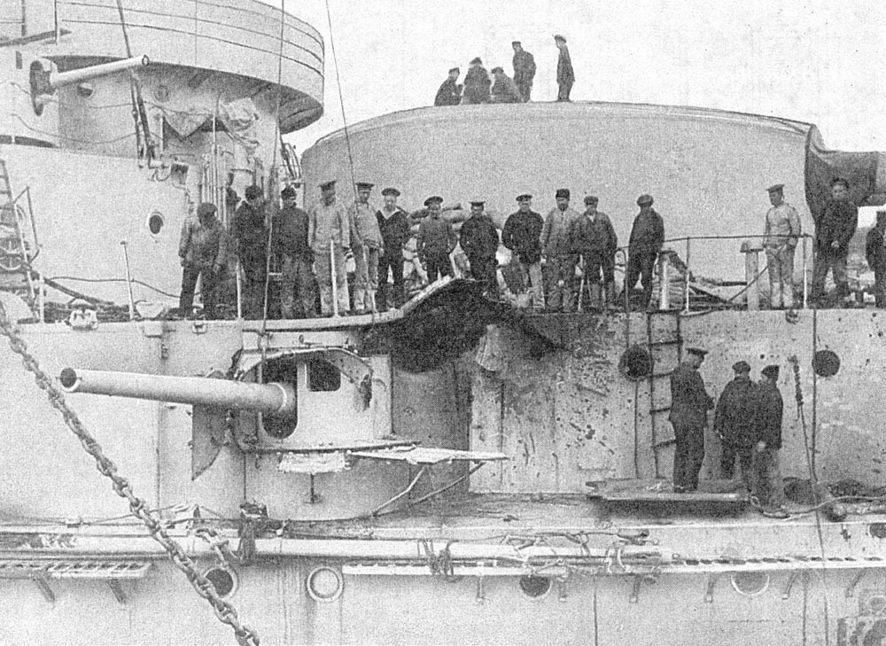 Damaged battleship Evstafii after the battle of cape Sarych on 18 November 1914.